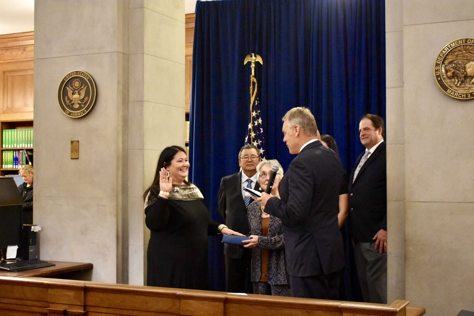 Tonight, Tara Sweeney was officially sworn in as the Assistant Secretary at the Bureau of Indian Affairs. She’s first #AlaskaNative to hold this leadership role, I’m so proud to have joined her family, friends & colleagues for this moment. Congratulations, Assistant Sec. Sweeney!